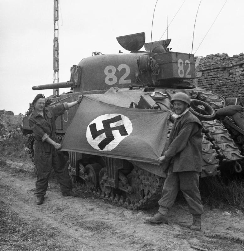 A Sherman tank crew from 27th Armoured Brigade with a German swastika flag they captured during the attack on Caen, Normandy, 10 July 1944. Sherman tank crewmen L/Cpl S James and Sgt H Coe of 27th Armoured Brigade hold up a German swastika flag they captured during the attack on Caen, 10 July 1944.